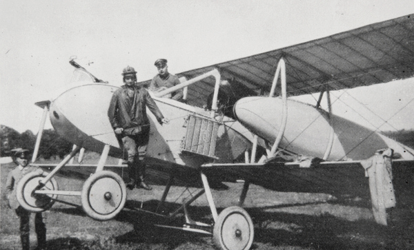 AGO C.I